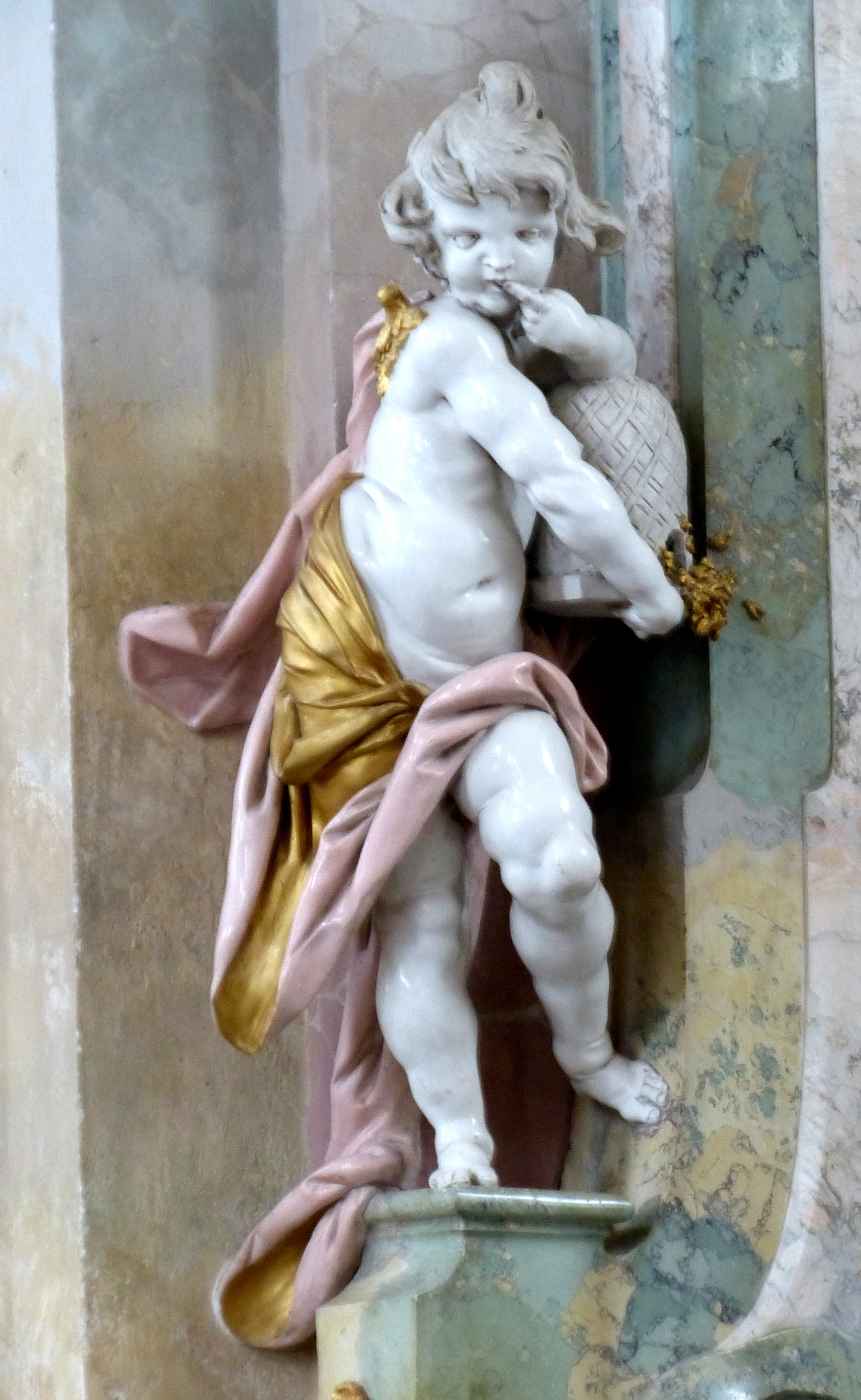 Birnau ( Baden-Württemberg ). Basilica of the Assumption of Mary ( 1750 ) - Altar of Saint Bernard of Clairvaux: Putto eating honey symbolizing the eloquence of Saint Bernard.